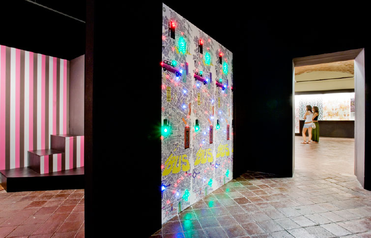 Material and rooms of the Wallpaper exhibit at Disseny Hub Barcelona